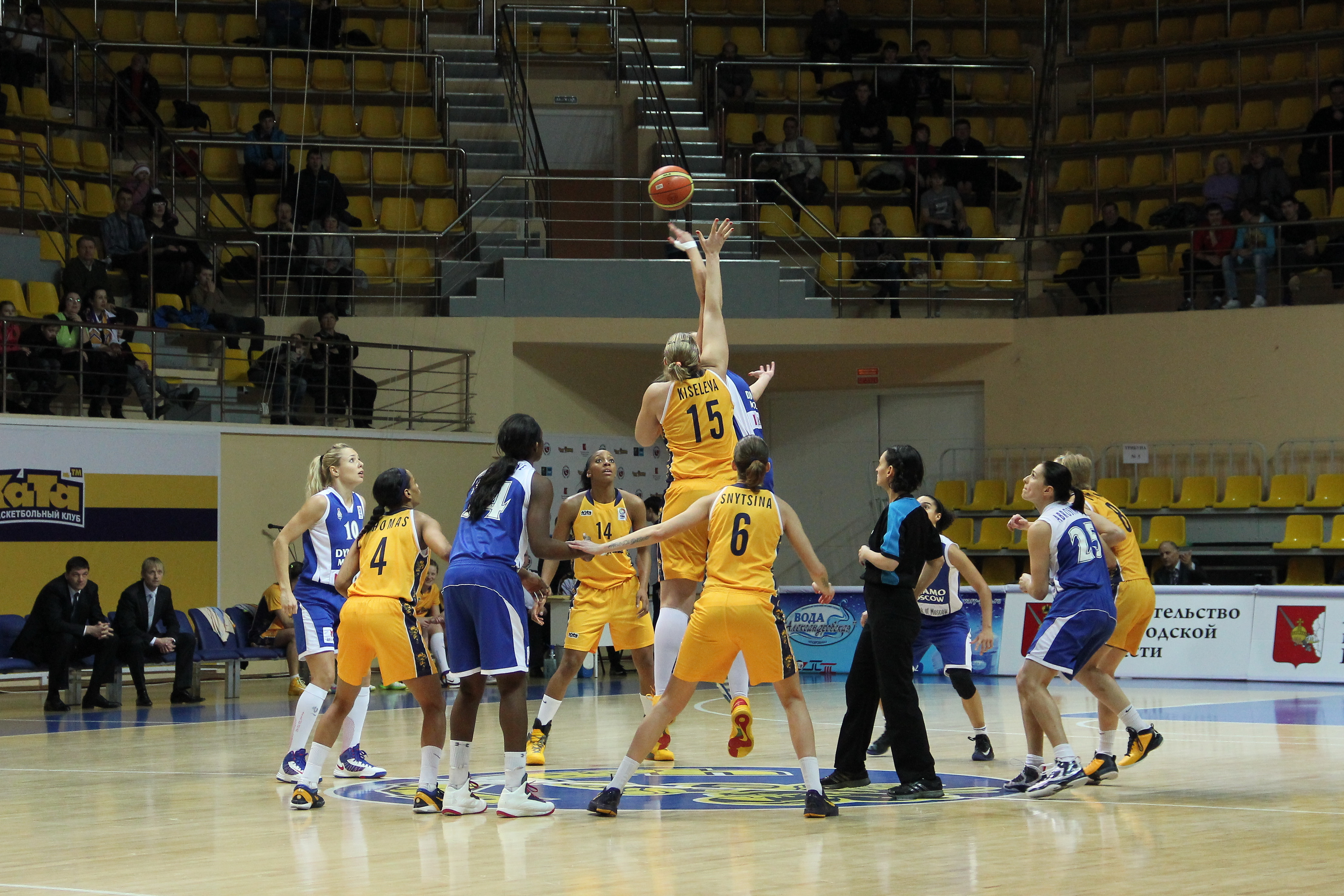 Russia, Vologda, game «Vologda-Chevakata» vs «Dinamo» (Moscow)